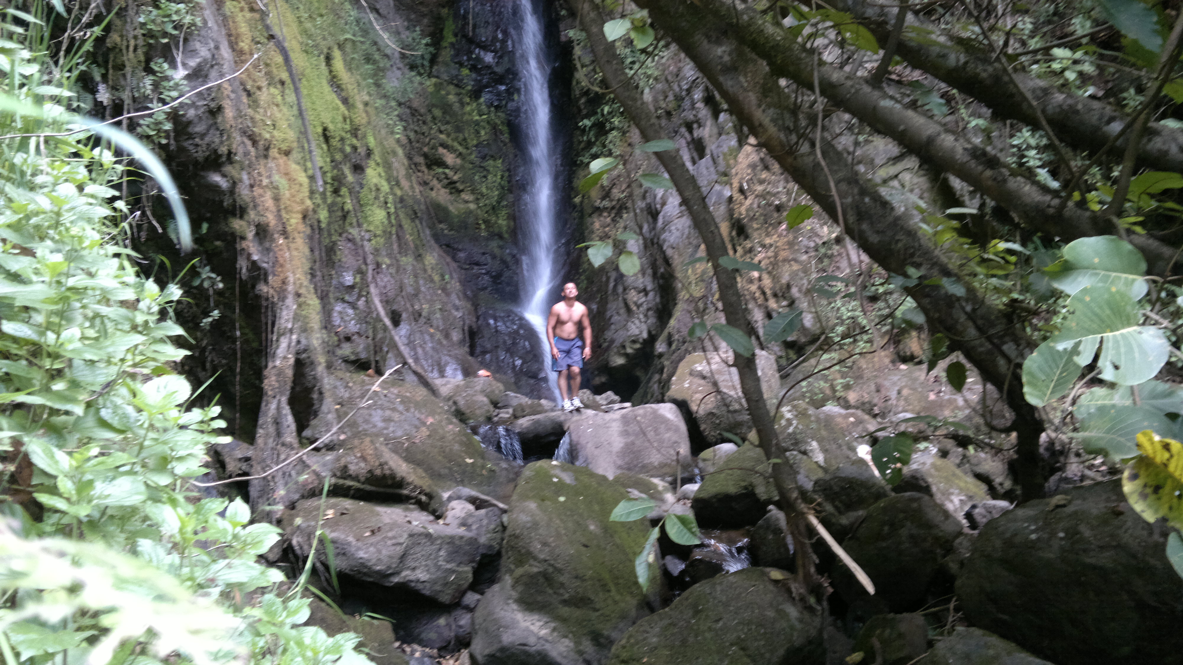 Waterfall "El Golpe" in Manta (Colombia)